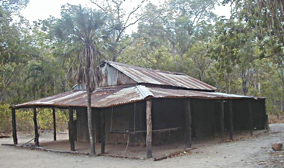 Photograph by Bill Bradley. billbeee 11:20, 10 May 2007 (UTC) Feel free to use it, just credit me as the photographer. You can contact me through my website my website